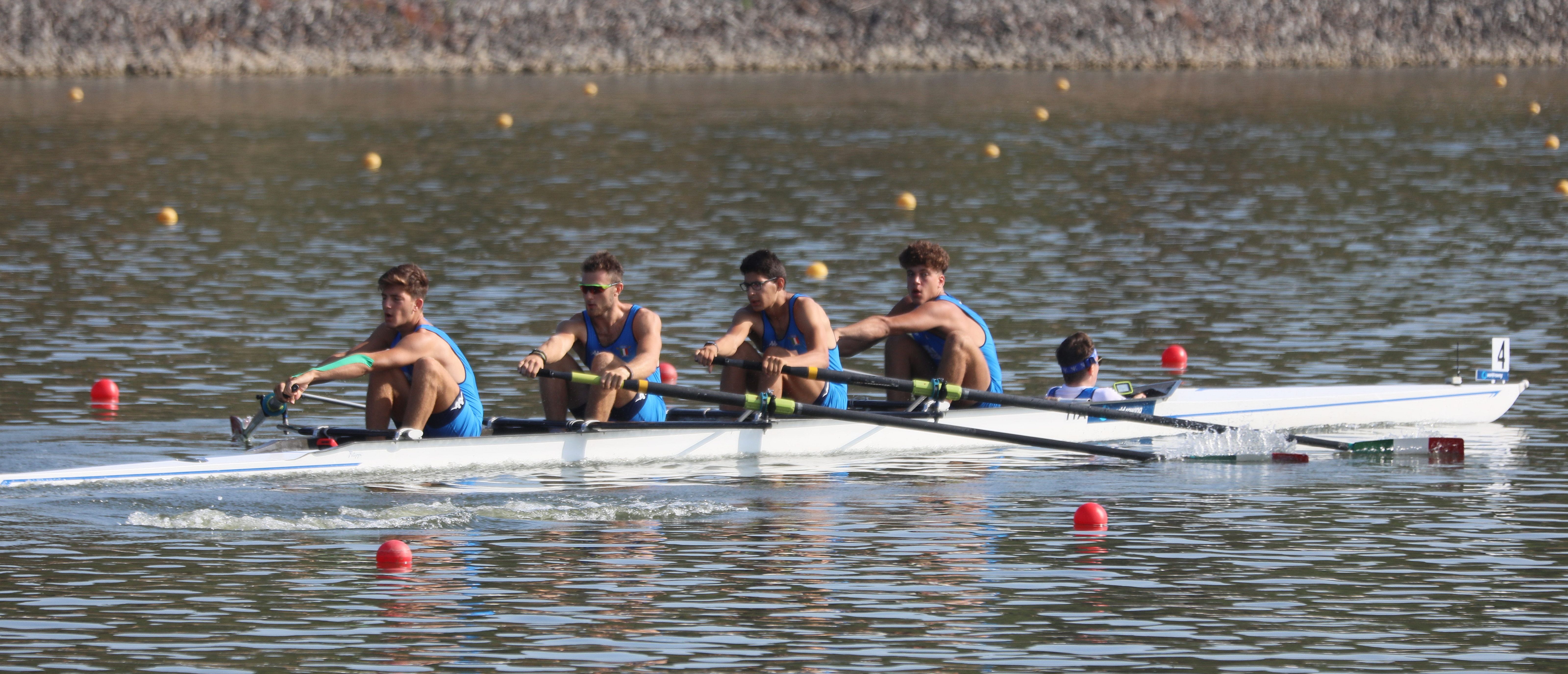 Junior Men's Coxed Four competition (heat) on 9 August at the 2018 World Rowing Junior Championships in Račice u Štětí.